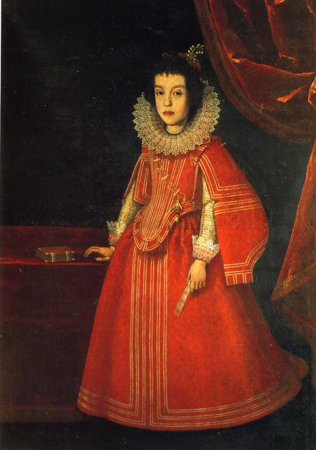 Portrait of Maria Cristina de' Medici (1609-1632)